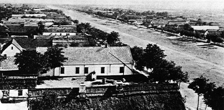 Main road of Krasna, Bessarabia